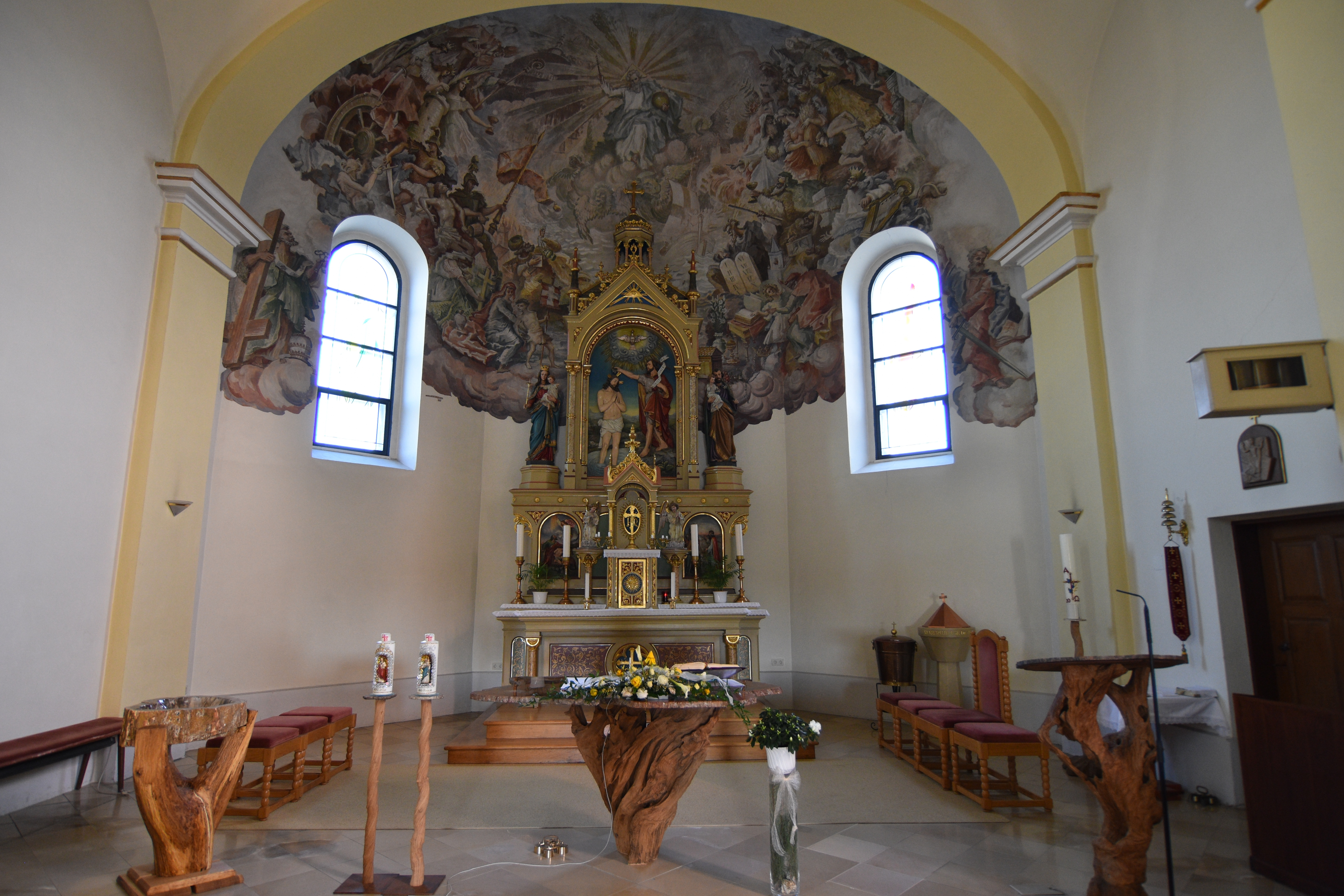 Church Neuberg im Burgenland - Interior